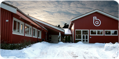 Main entrance at BiG